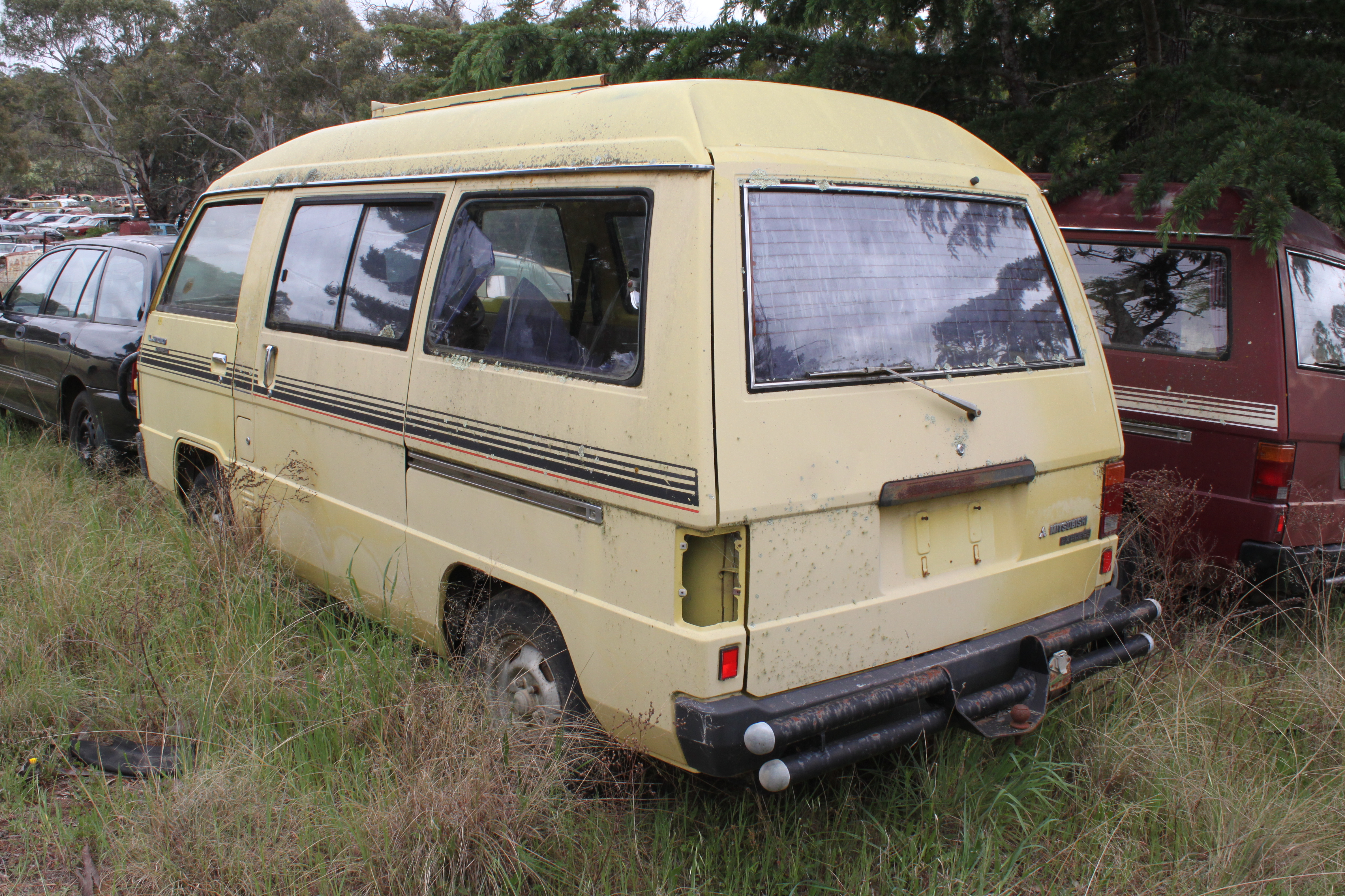 Flynn's Wrecking Yard, Cooma NSW